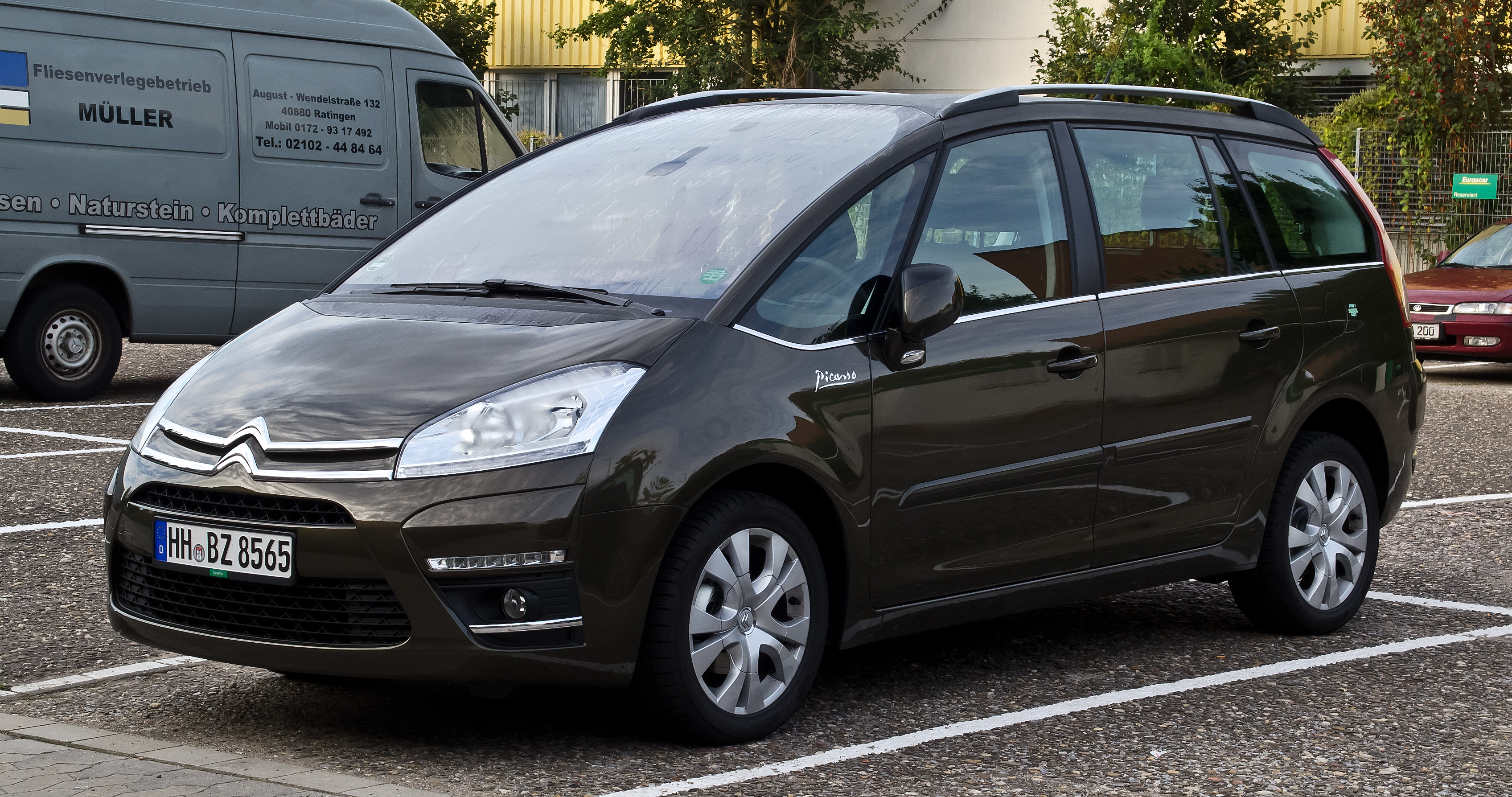 Citroën Grand C4 Picasso HDi 150 Business Class (Facelift)